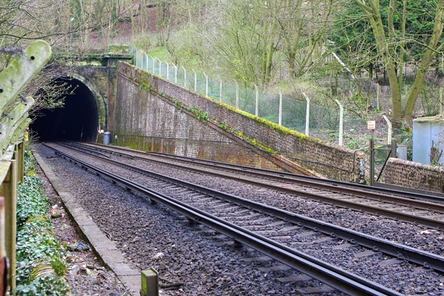 Patcham Tunnel, north end